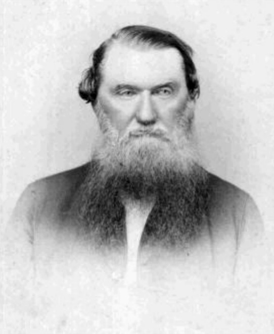 James Henry Bowker (1822-1900), South African naturalist and soldier